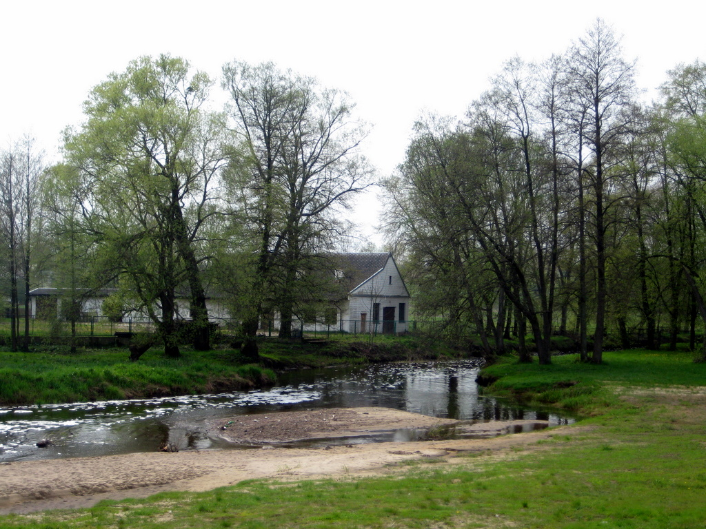 River Narewka in Narewka